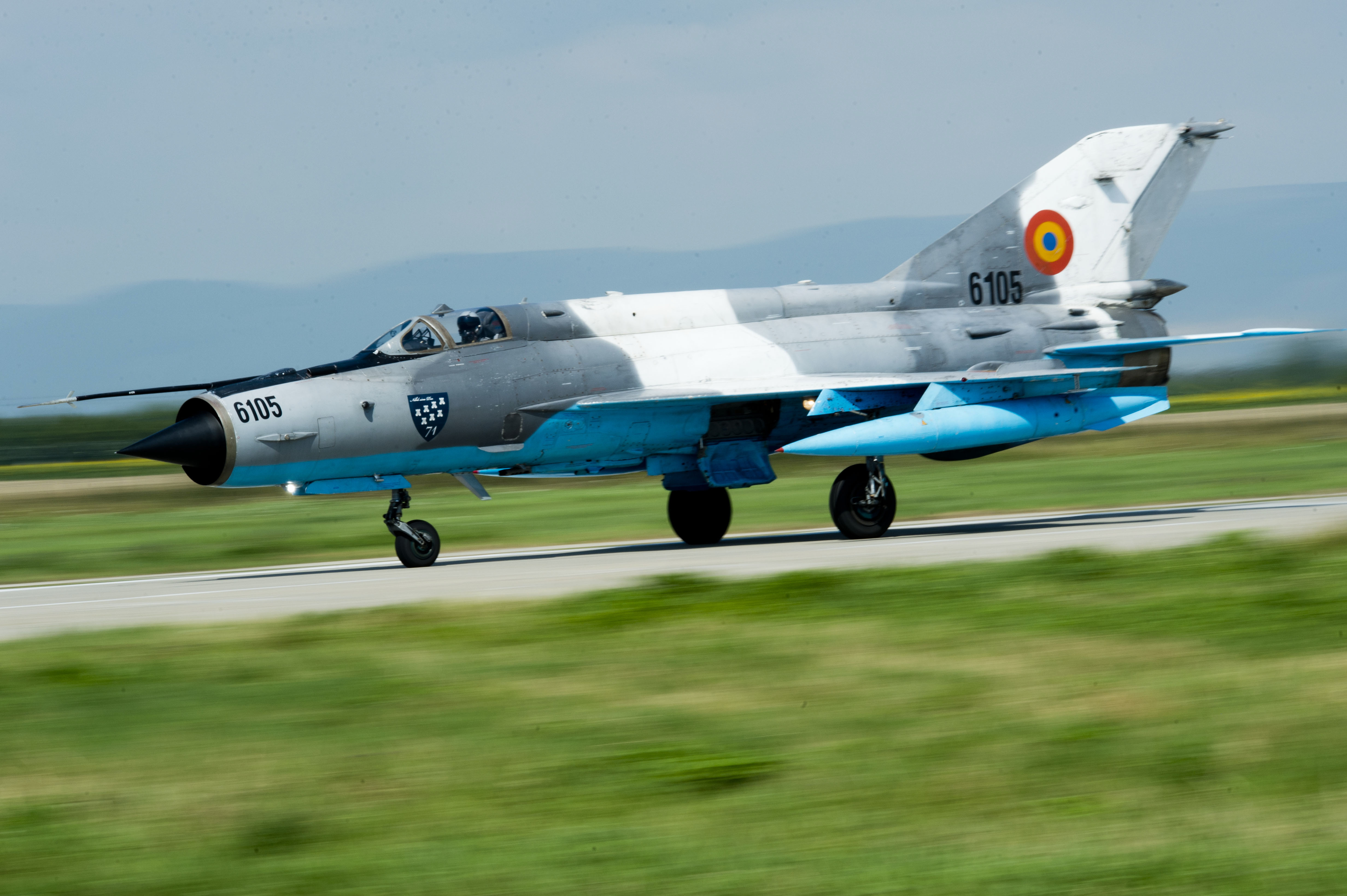 A Romanian air force MiG-21 LanceR fighter aircraft takes off from the flightline during the RoAF's 71st Air Base's air show and open house at Campia Turzii, Romania, July 23, 2016. The aviation demonstration took place during the middle of the U.S. Air Force's 194th Expeditionary Fighter Squadron's six-month long theater security package deployment to Europe in support of Operation Atlantic Resolve, which aims to bolster the U.S.'s continued commitment to the collective security of NATO and dedication to the enduring peace and stability in the region. The unit, comprised of more than 200 CANG Airmen from the 144th Fighter Wing at Fresno ANG Base, Calif., as well as U.S. Air Force Airmen from the 52nd Fighter Wing at Spangdahlem Air Base, Germany, piloted, maintained and supported the deployment of 12 F-15Cs Eagle fighter aircraft throughout nations like Romania, Iceland, the United Kingdom, the Netherlands, Estonia and among others. The F-15Cs took to the skies alongside the 71st AB's MiG-21 fighter aircraft and Puma helicopters for both the airshow, the second engagement of its kind at Campia Turzii under Operation Atlantic Resolve, and the bilateral flight training, also known as Dacian Eagle 2016. (U.S. Air Force photo by Staff Sgt. Joe W. McFadden/Released) Unit: 52nd Fighter Wing Public Affairs